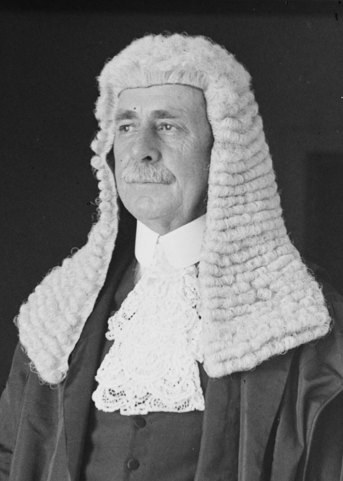 Australian politician Littleton Groom